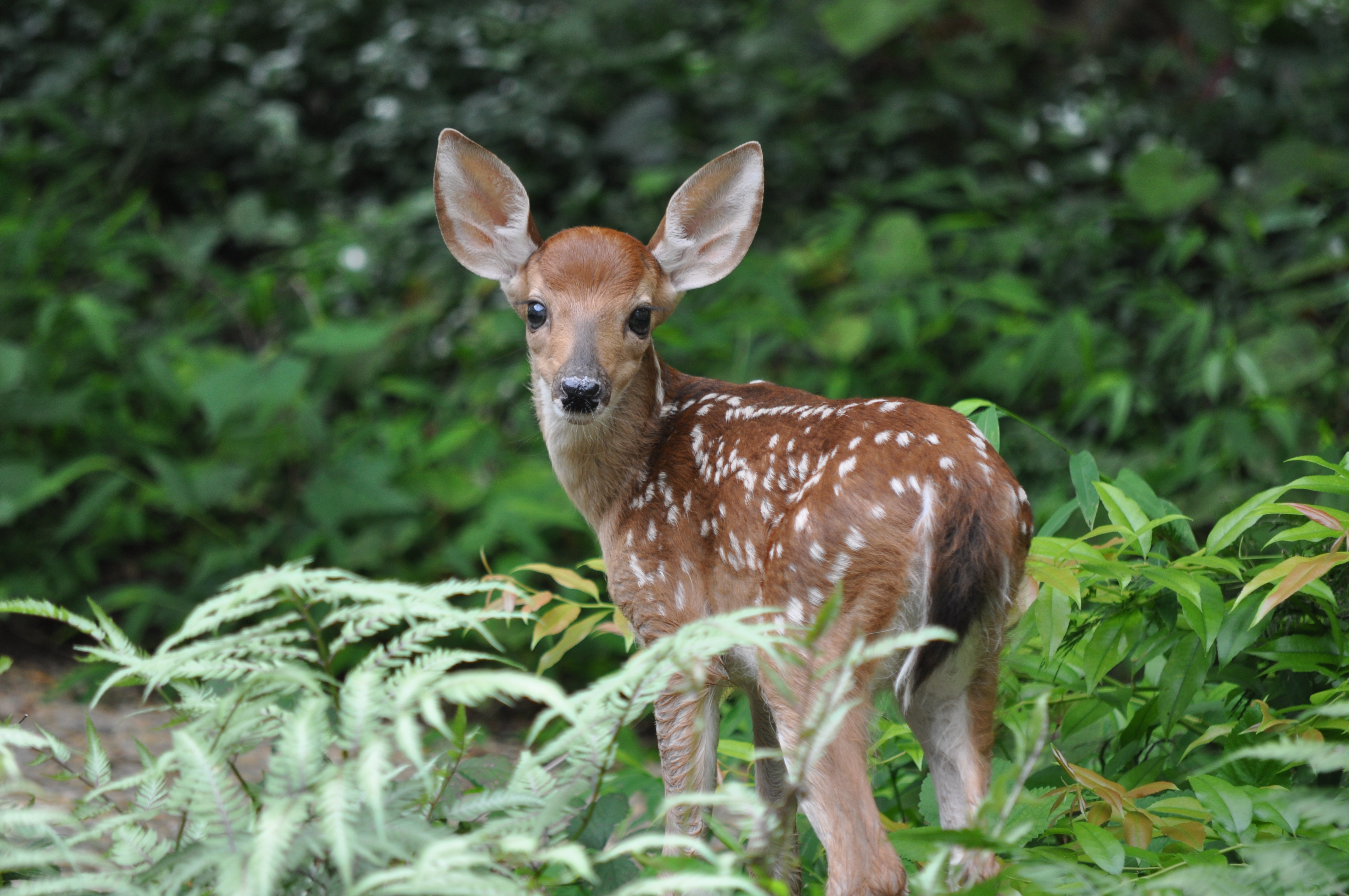 White Tailed Deer, Raleigh, NC